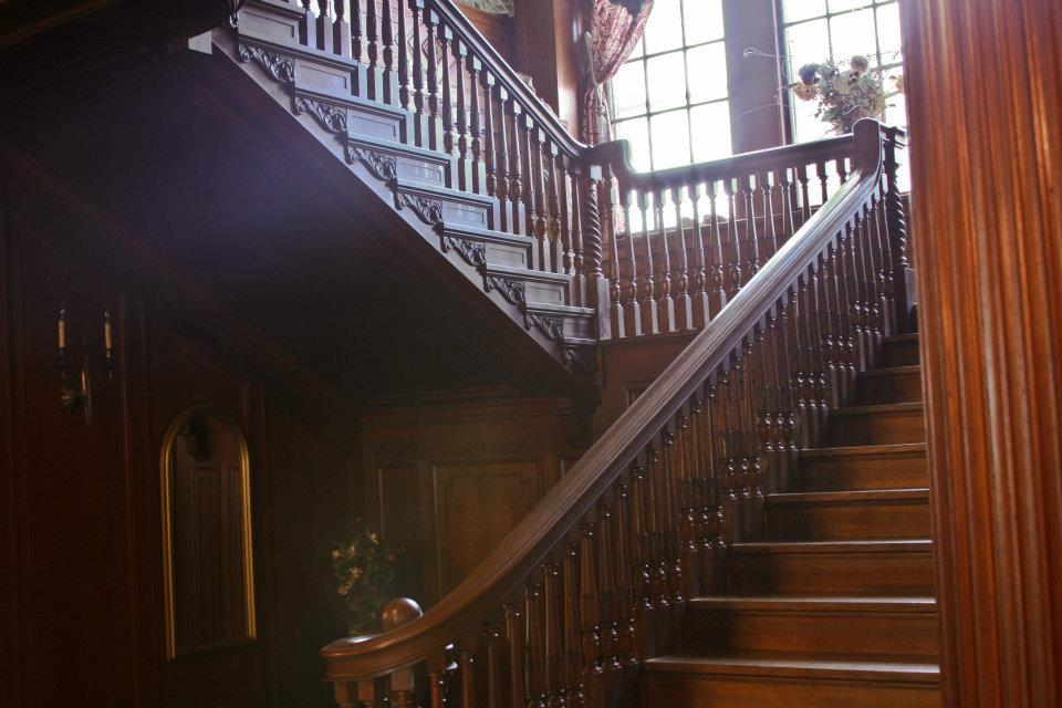 Image of the house at 13 Mansion Road known as The Charles Winship House